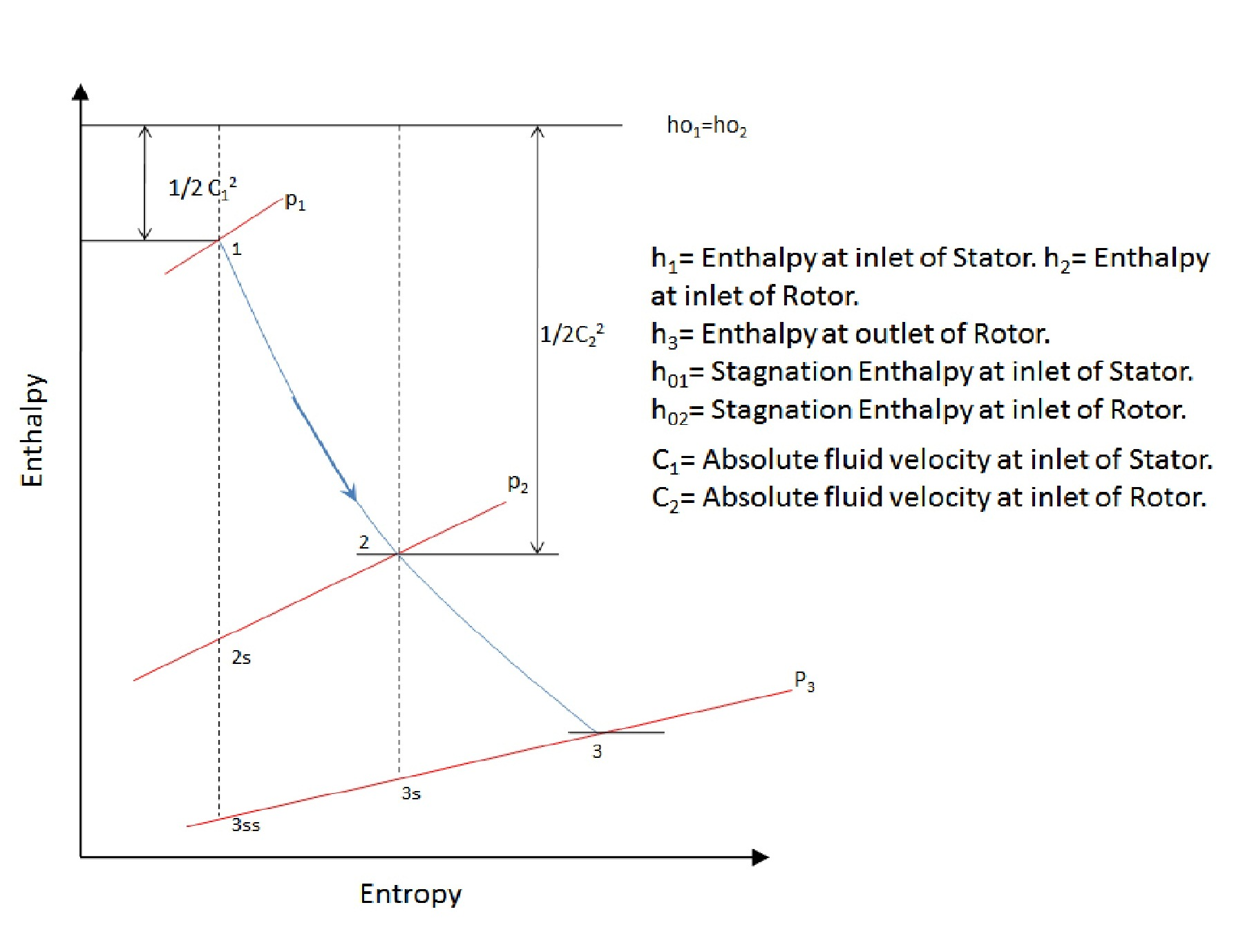 Fig shows the change in enthalpy vs entropy during fluid flow through stage of a turbine.